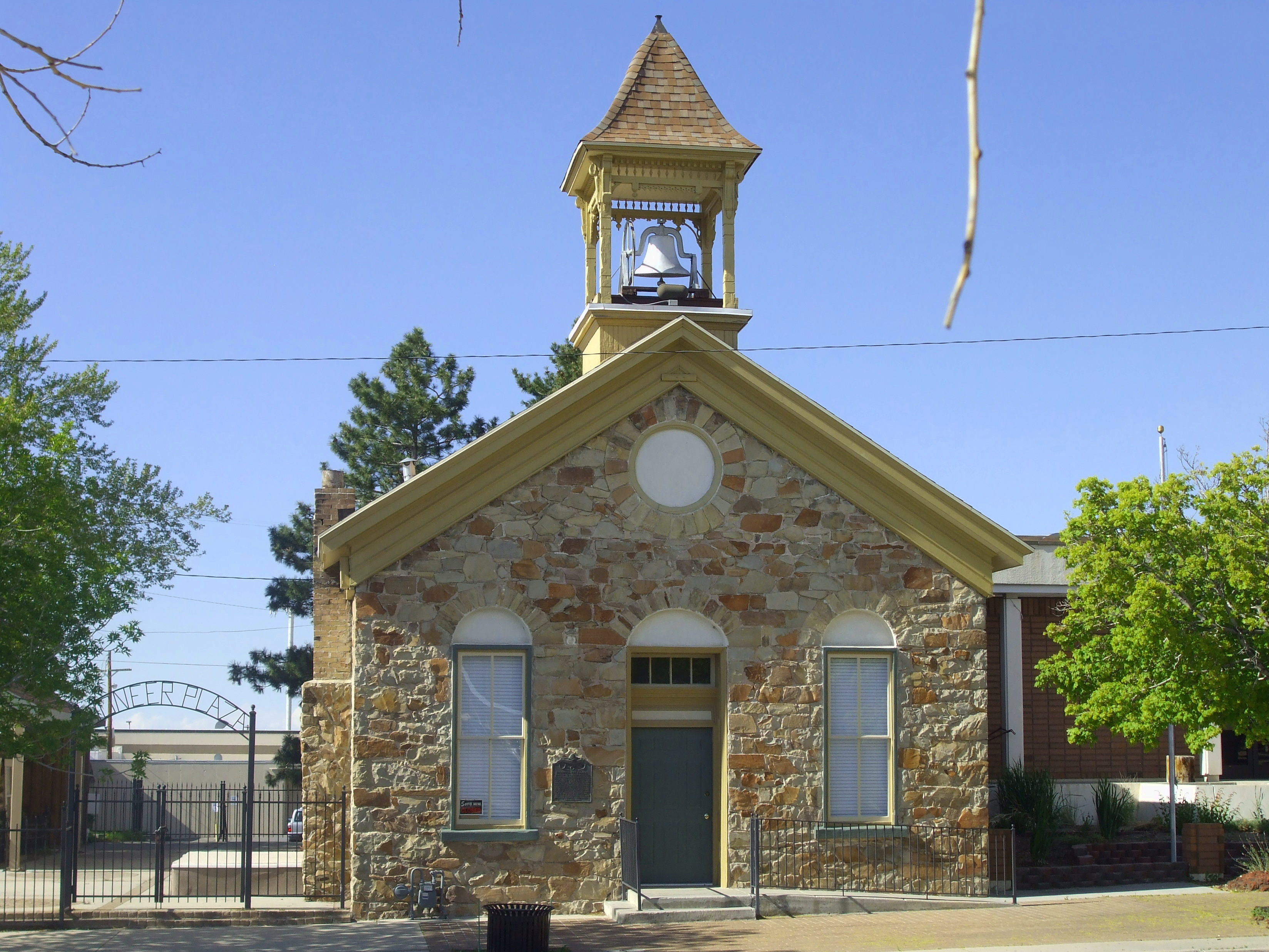 The Tooele County Courthouse and City Hall, a historic building in Tooele, Utah, United States.